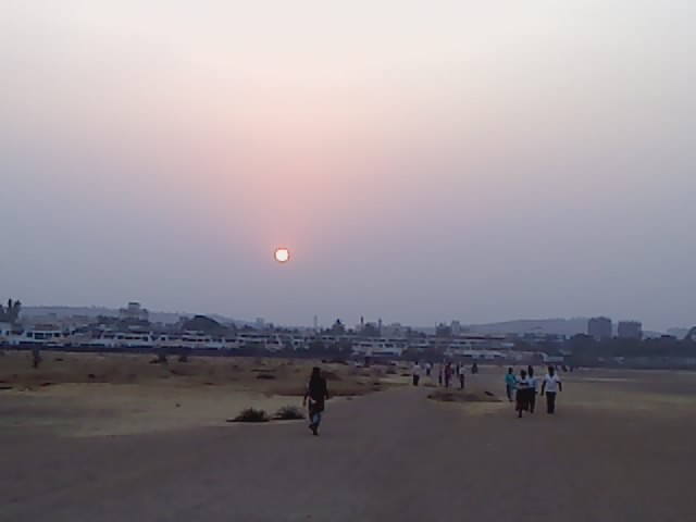 sunset view from Gliding center Hadapsar, Pune, Maharashtra